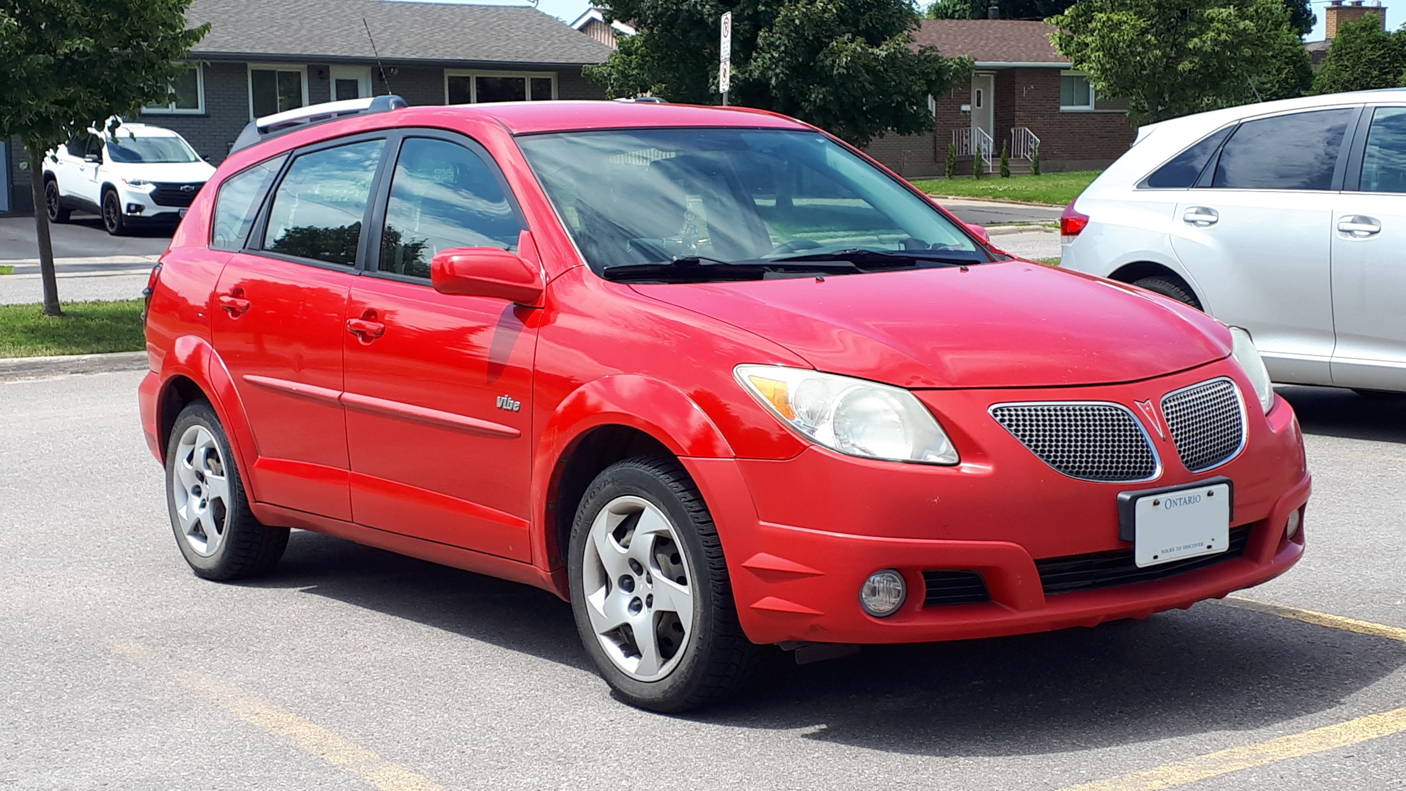 2005-2008 Pontiac Vibe photographed in Sault Ste. Marie, Ontario, Canada